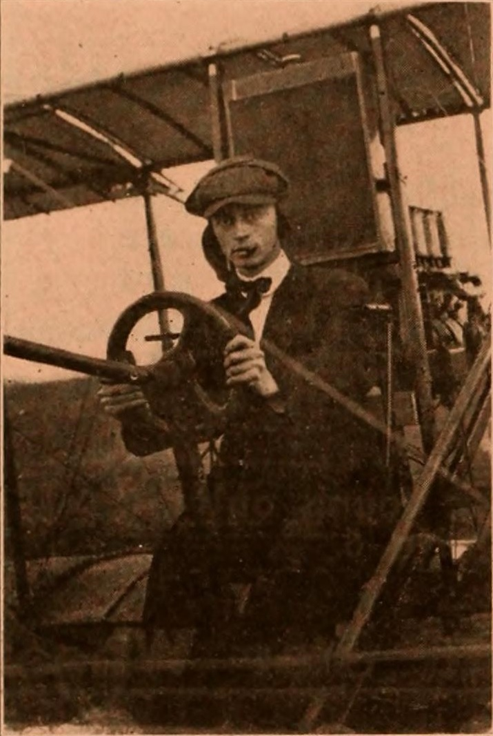 A film still from The Wild Flower and the Rose by the Thanhouser Company. Released in 1910.